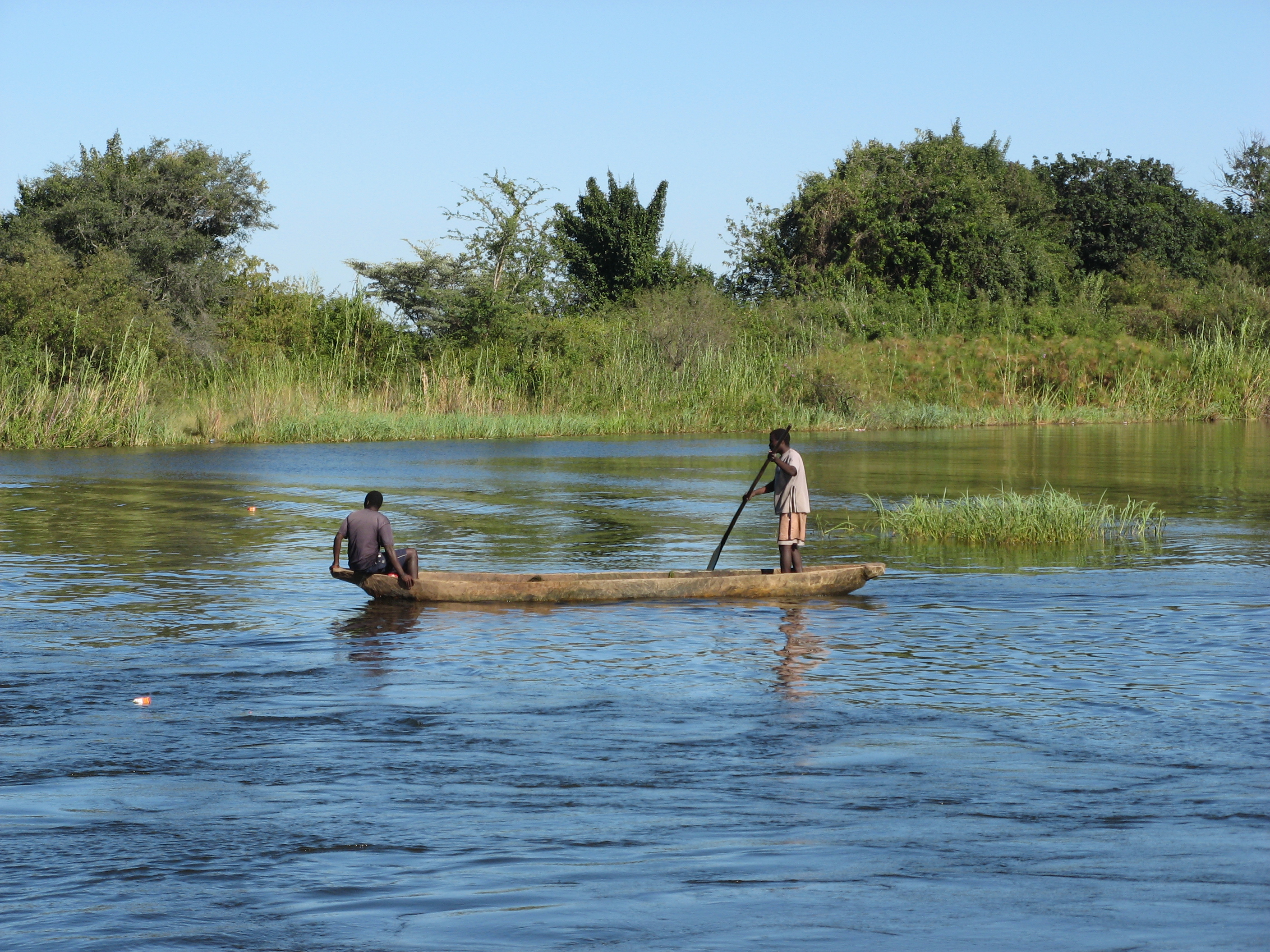 2 people in a canoe in the Zambezi river